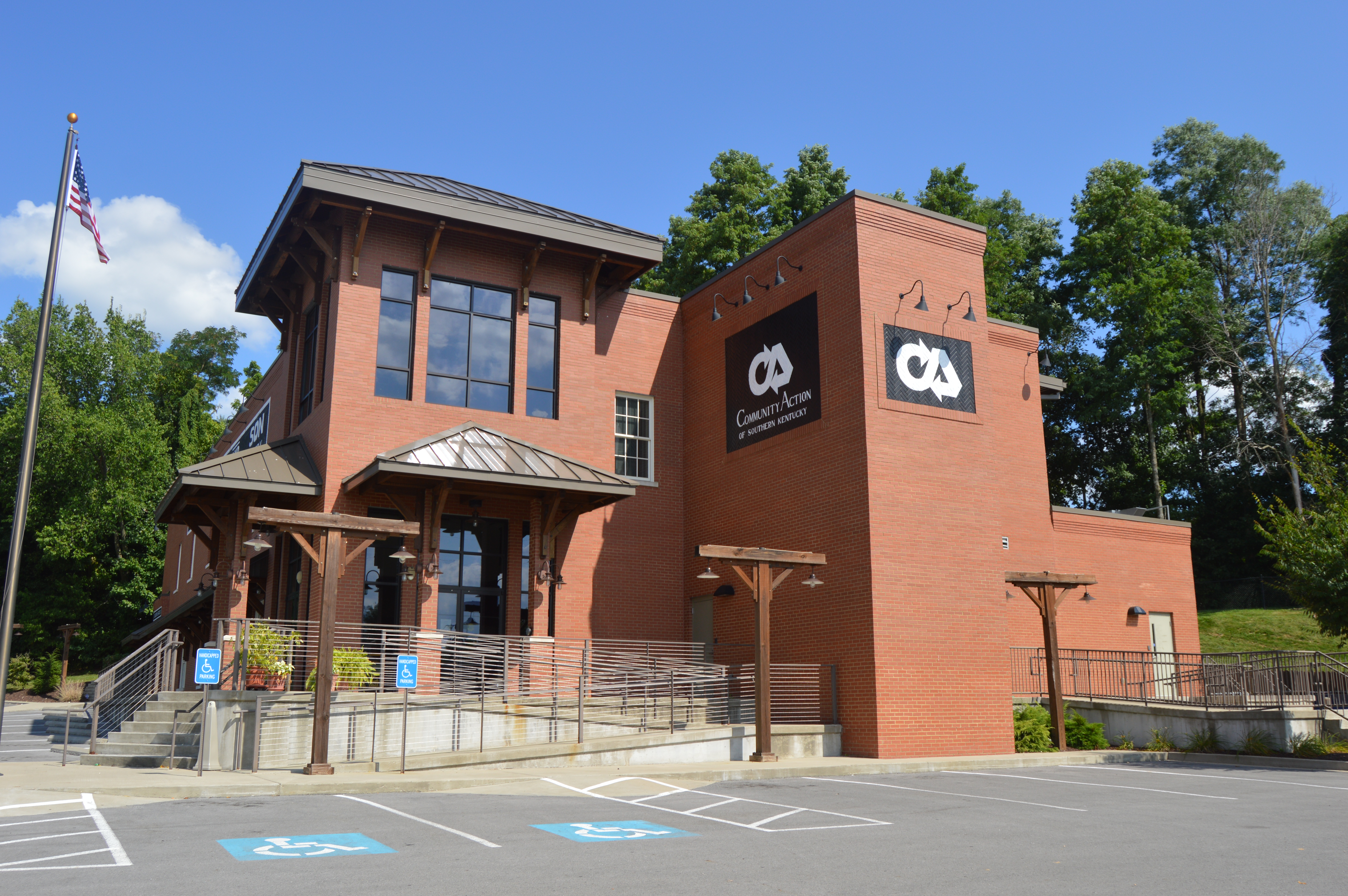 Western end of the J.L. Turner and Son Building (now Community Action of Southern Kentucky, an anti-poverty organization), located along Old East Main Street in Scottsville, Kentucky, United States. Built in 1939, it is listed on the National Register of Historic Places.